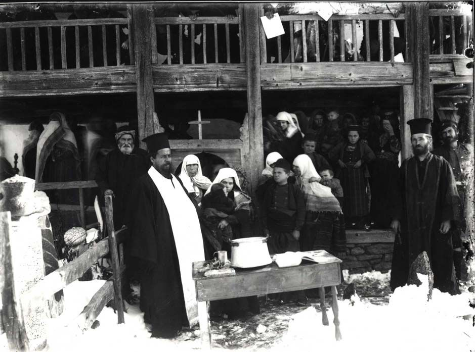 Baptism at the village of Banite in 1912.